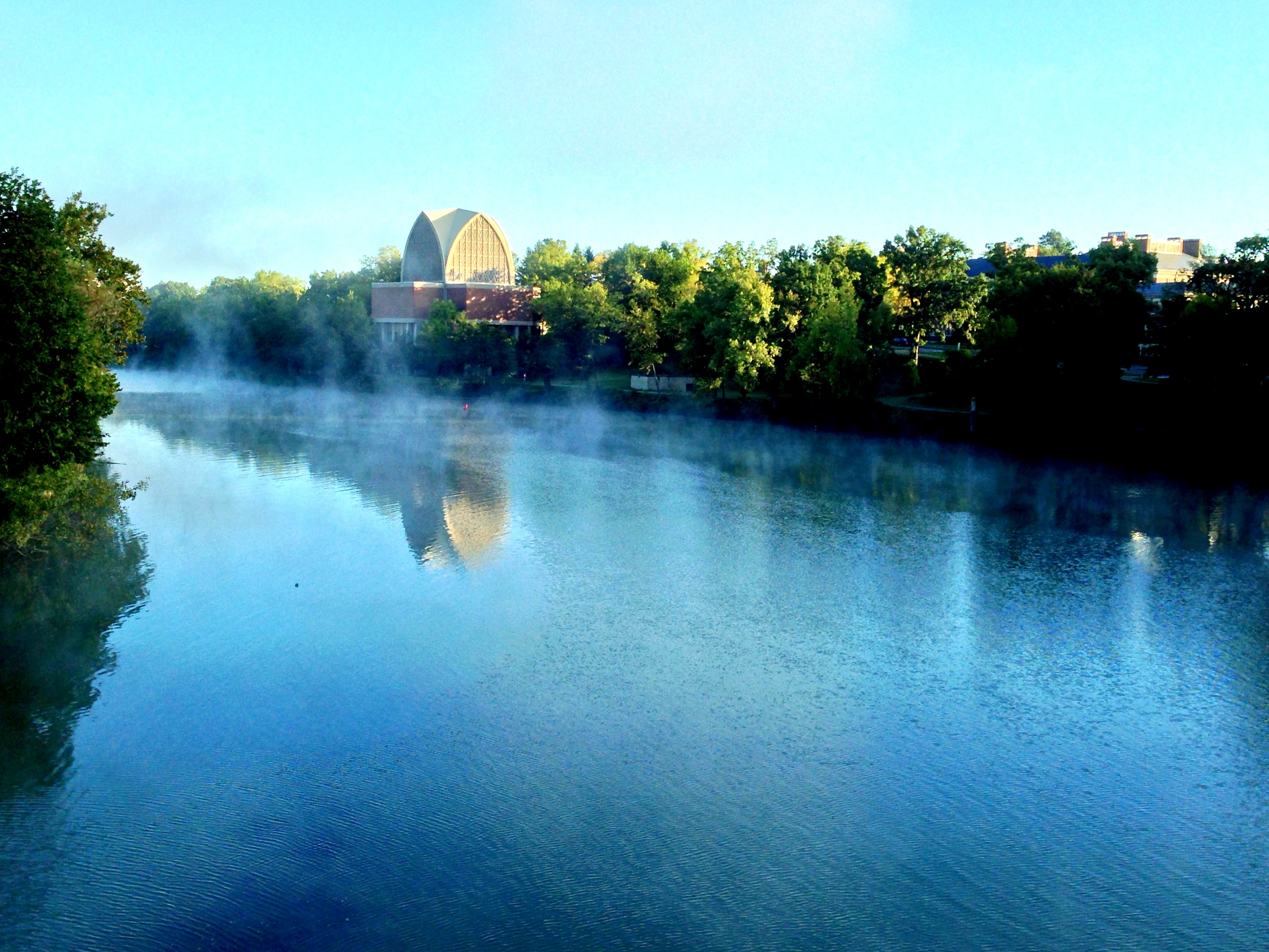 The Genesee River near the University of Rochester's interfaith chapel